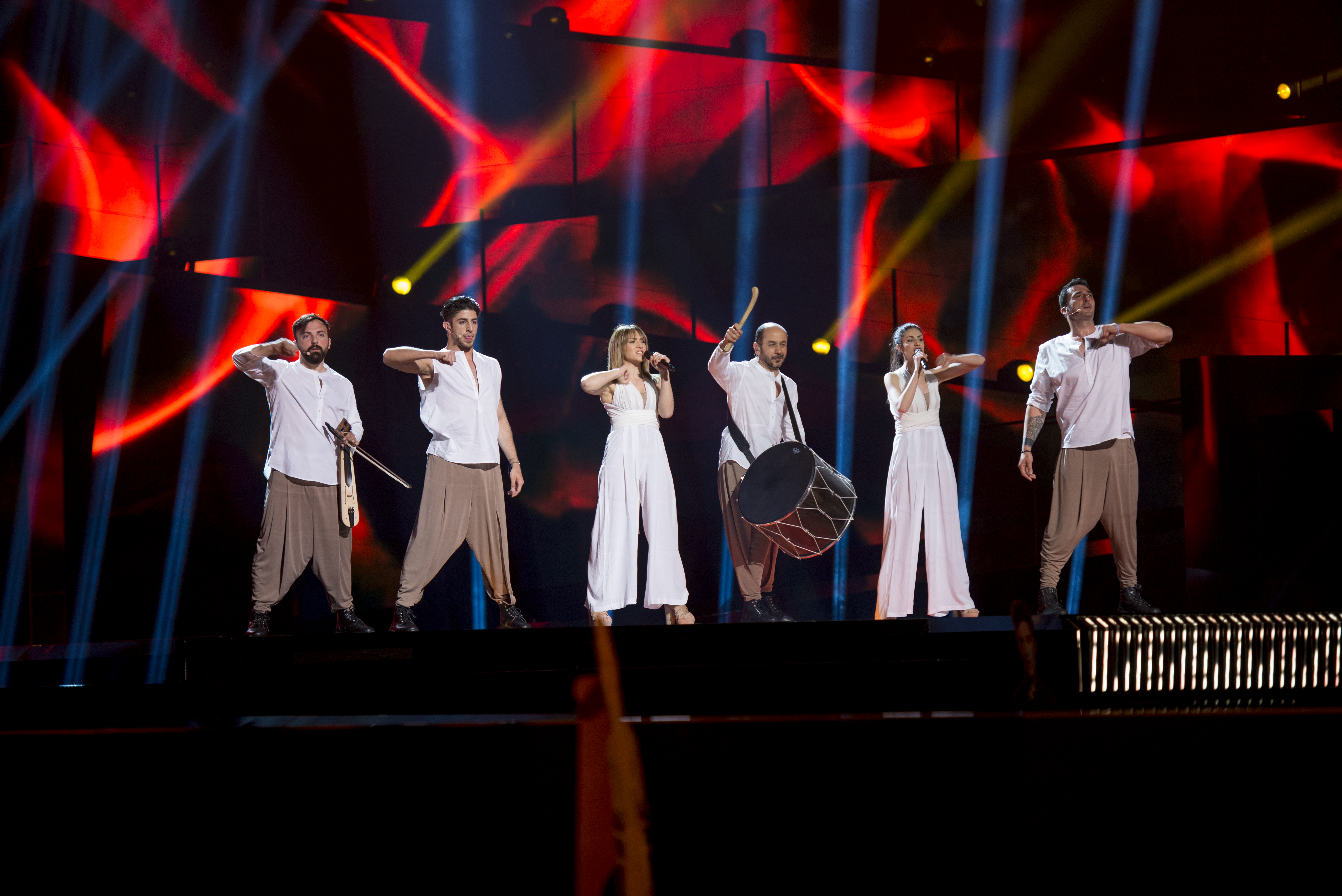 Argo representing Greece with the song "Utopian Land" during a rehearsal before the first semi final of the Eurovision Song Contest 2016 in Stockholm. (Help translate this text)